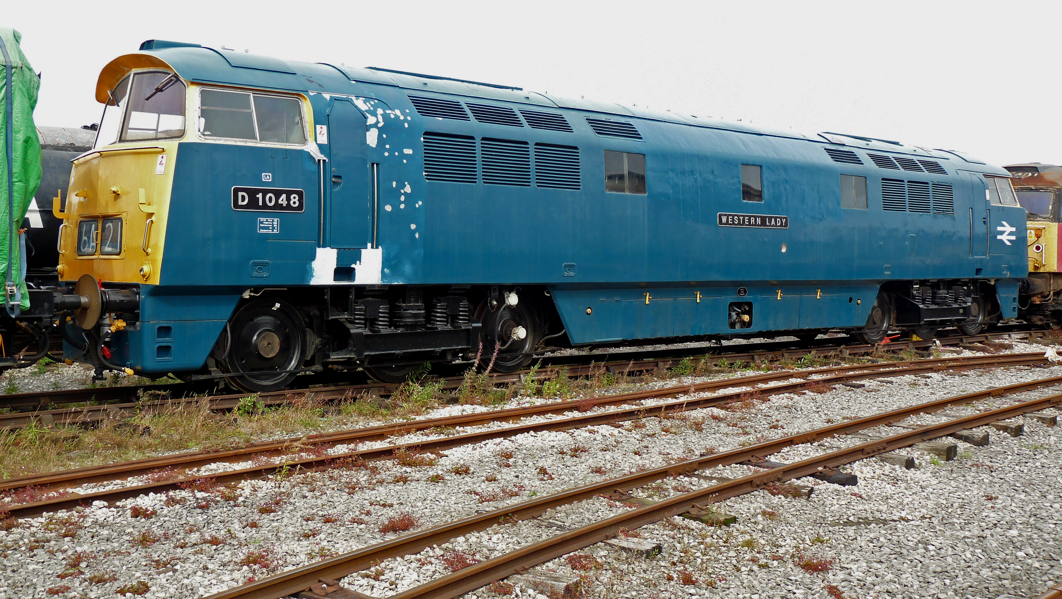 British Rail assigned Class 52 to the class of 74 large Type 4 diesel-hydraulic locomotives built for the Western Region of British Railways between 1961 and 1964. All were given two-word names, the first word being Western; thus the type became known as Westerns. The Westerns, like the Warships, were numbered in BR's original diesel serial number system, before the TOPS class-plus-number system took over: Warships were in the D800 range, and the 74 Westerns were numbered from D1000 to D1073, though on TOPS itself the Westerns' new numbering was used—the loco number by itself (e.g. 1023) appeared on the system.The locos themselves never had the new numbering applied to their bodywork either. Preserved at the Midland Railway Centre.